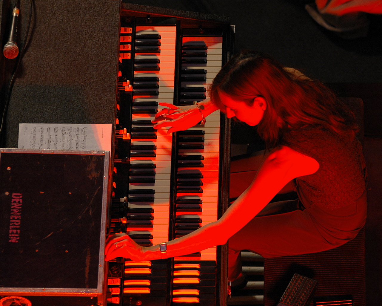 Barbara Dennerlein plays on two organ manuals while pushing and sliding the controls, and using both feet to tap dance precisely across the pedals.